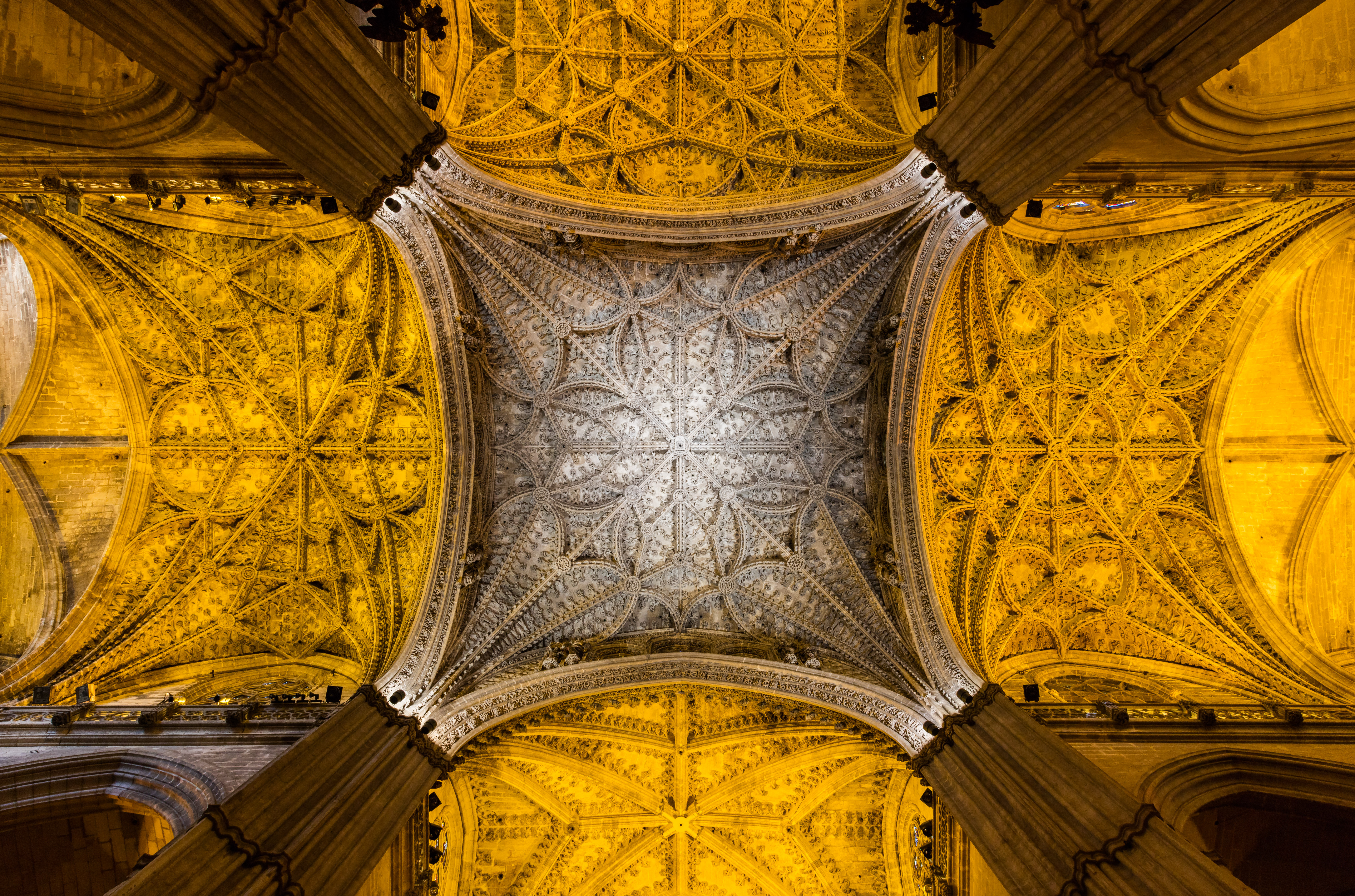 Bottom view of the crossing of the Roman Catholic cathedral of Seville, Seville, Spain. The temple is since 1987 a World Heritage Site according to the UNESCO, is the largest Gothic cathedral and the third-largest church in the world. When it was completed, at the beginning of the 16th century, it became the successor of Hagia Sophia as the largest cathedral in the world, a title the Byzantine church had held for nearly a thousand years. The cathedral is also the burial site of Christopher Columbus.